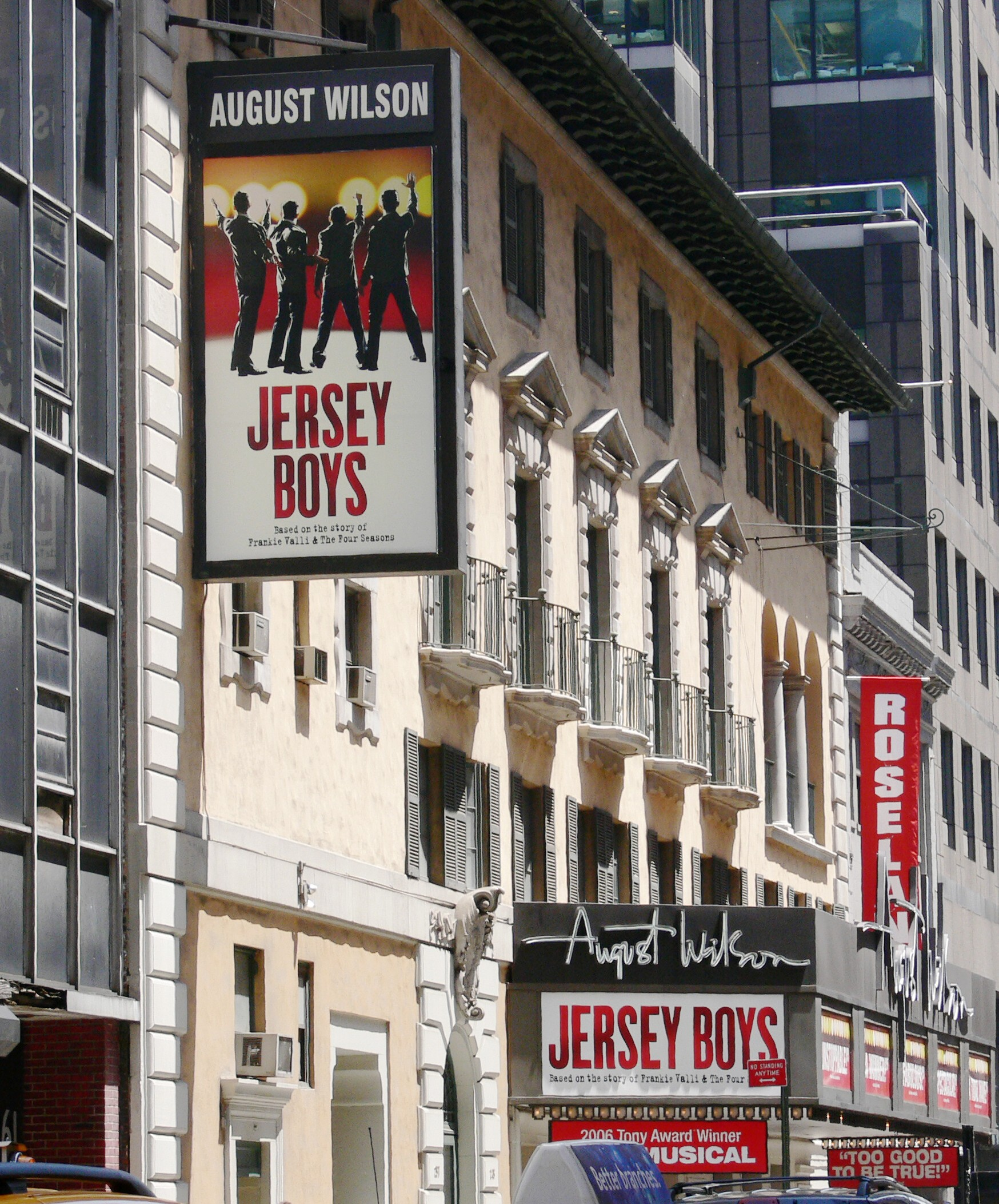 August Wilson Theatre (formerly Virginia Theatre), showing "Jersey Boys" 52nd Street, Manhattan, New York City